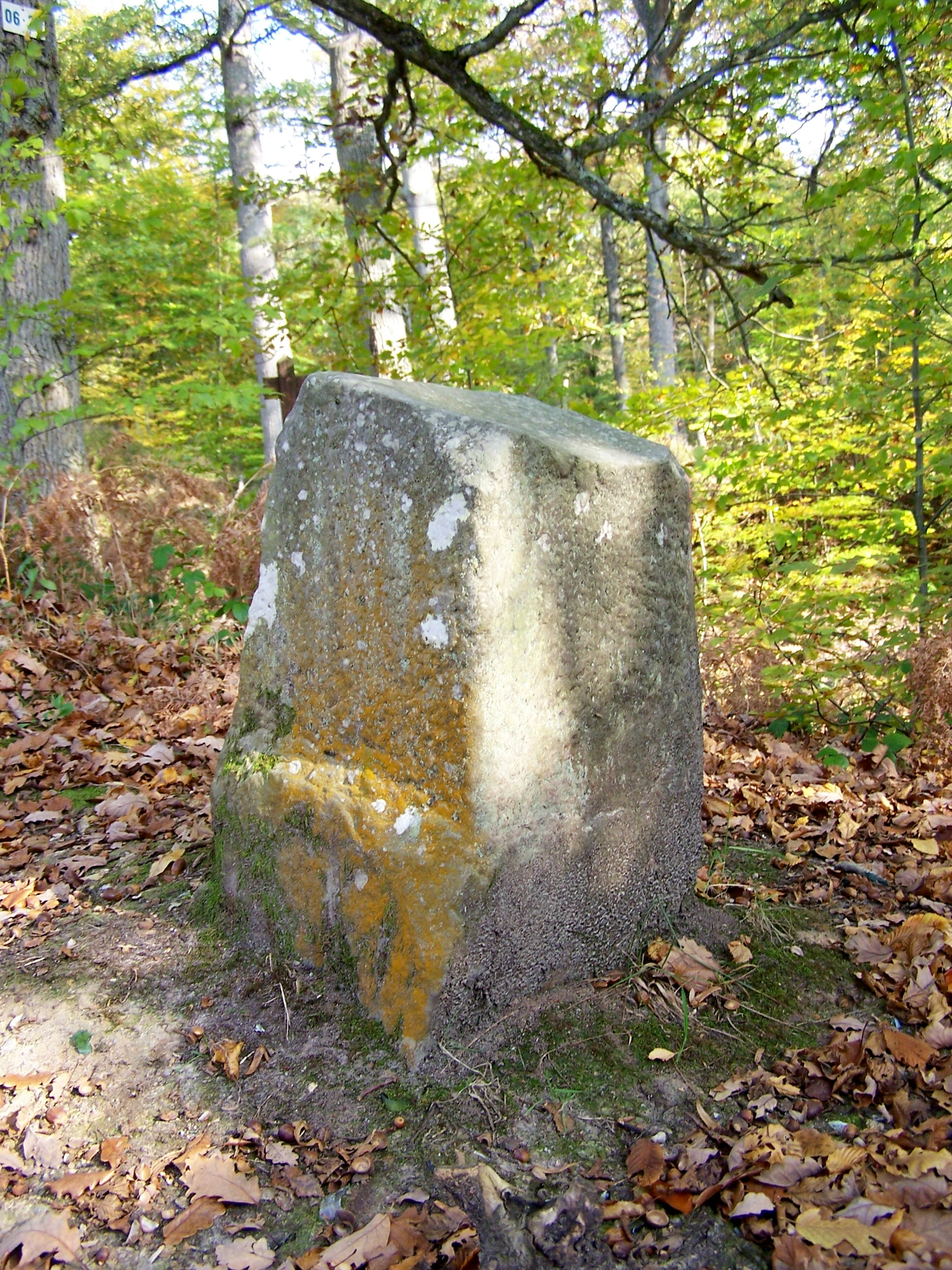 Boundary stone of the royal domain in the forest of Rambouillet (Yvelines, France)